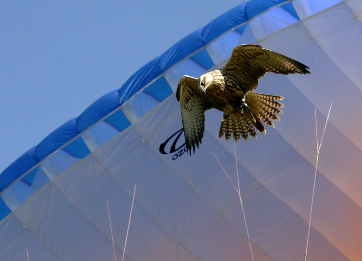 a falcon flying just in front of a paraglider is waiting and looking down to "his" pilot